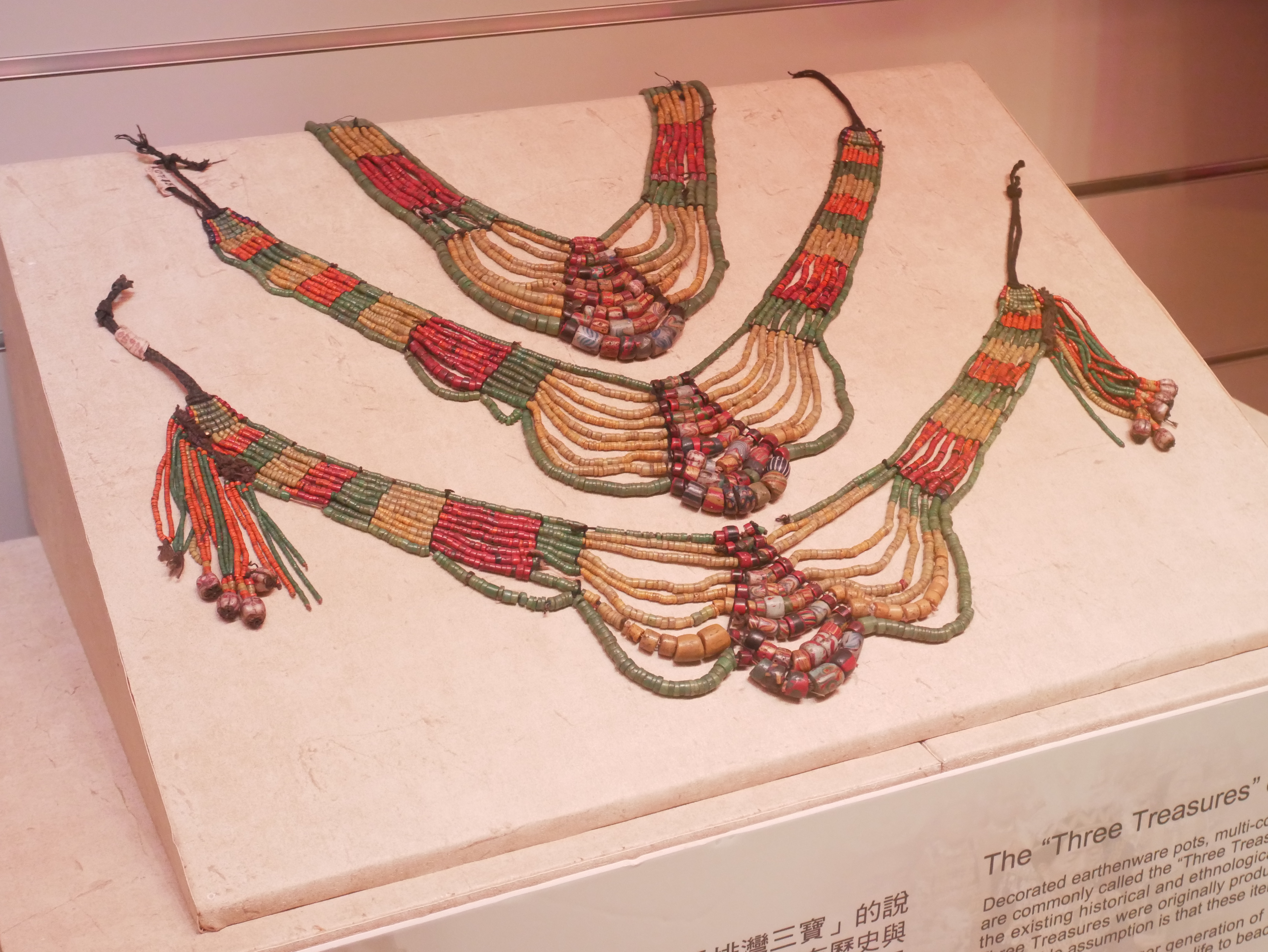 排灣族泰武社（高雄州潮州郡蕃地クワルス社）珠串頸飾，臺北市南港區中研次分區中研里